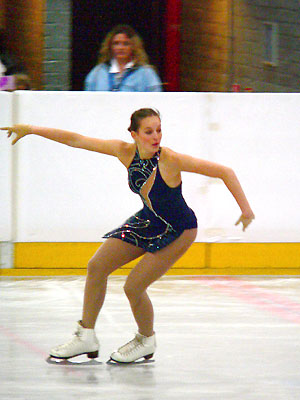 Rūta Gajauskaitė during her long program at the 2006 Junior Grand Prix event in The Hague, Netherlands